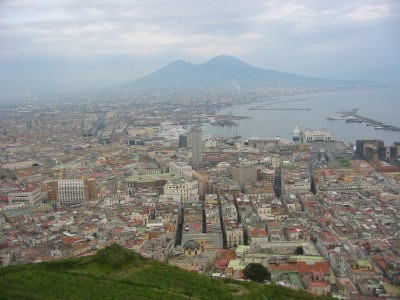 View of Naples, Italy. Photograph taken by Donar Reiskoffer in April 2003.